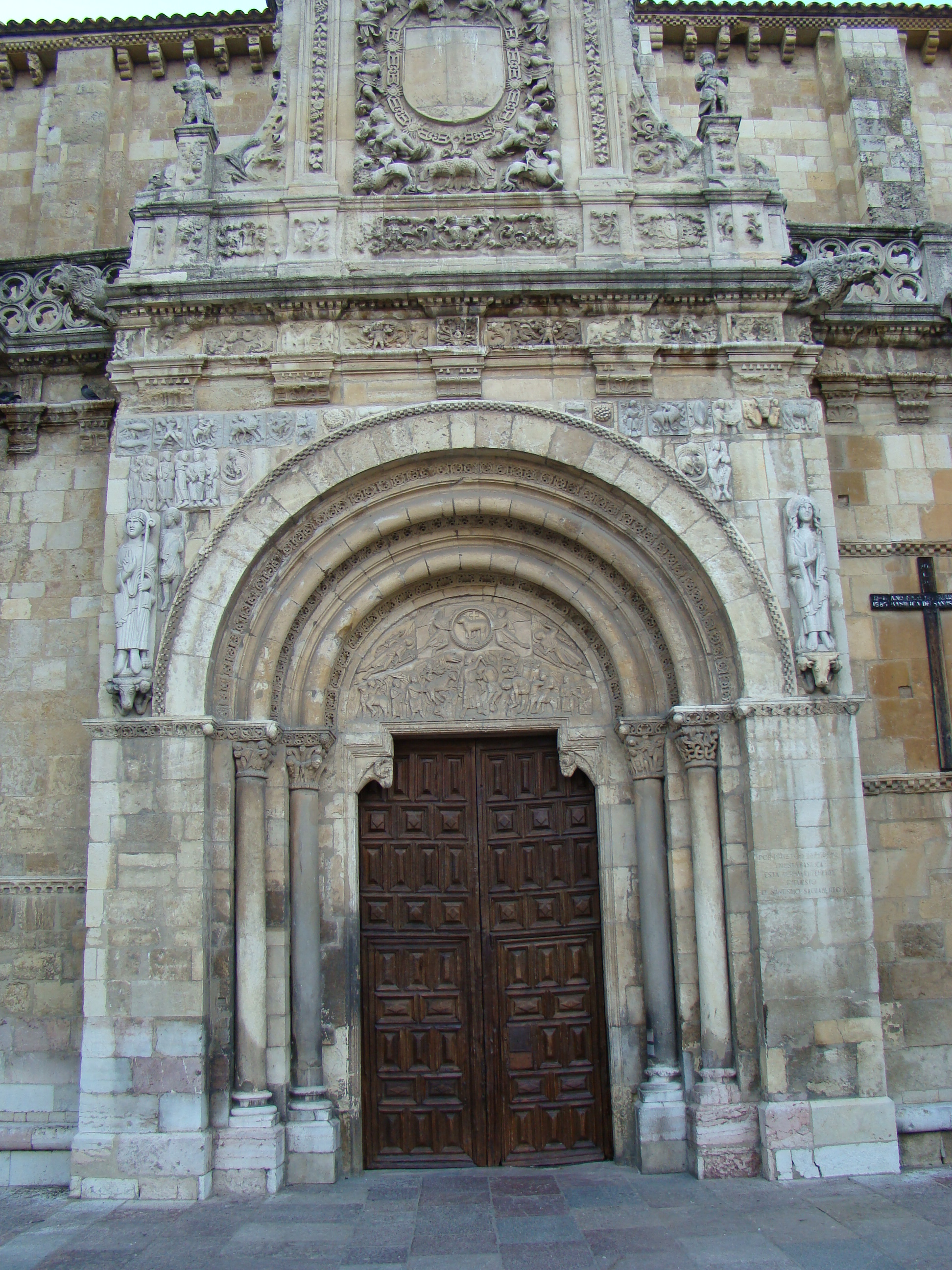 Romanesque basilica of San Isidoro in León, Spain. Romanesque gate of the Lamb.